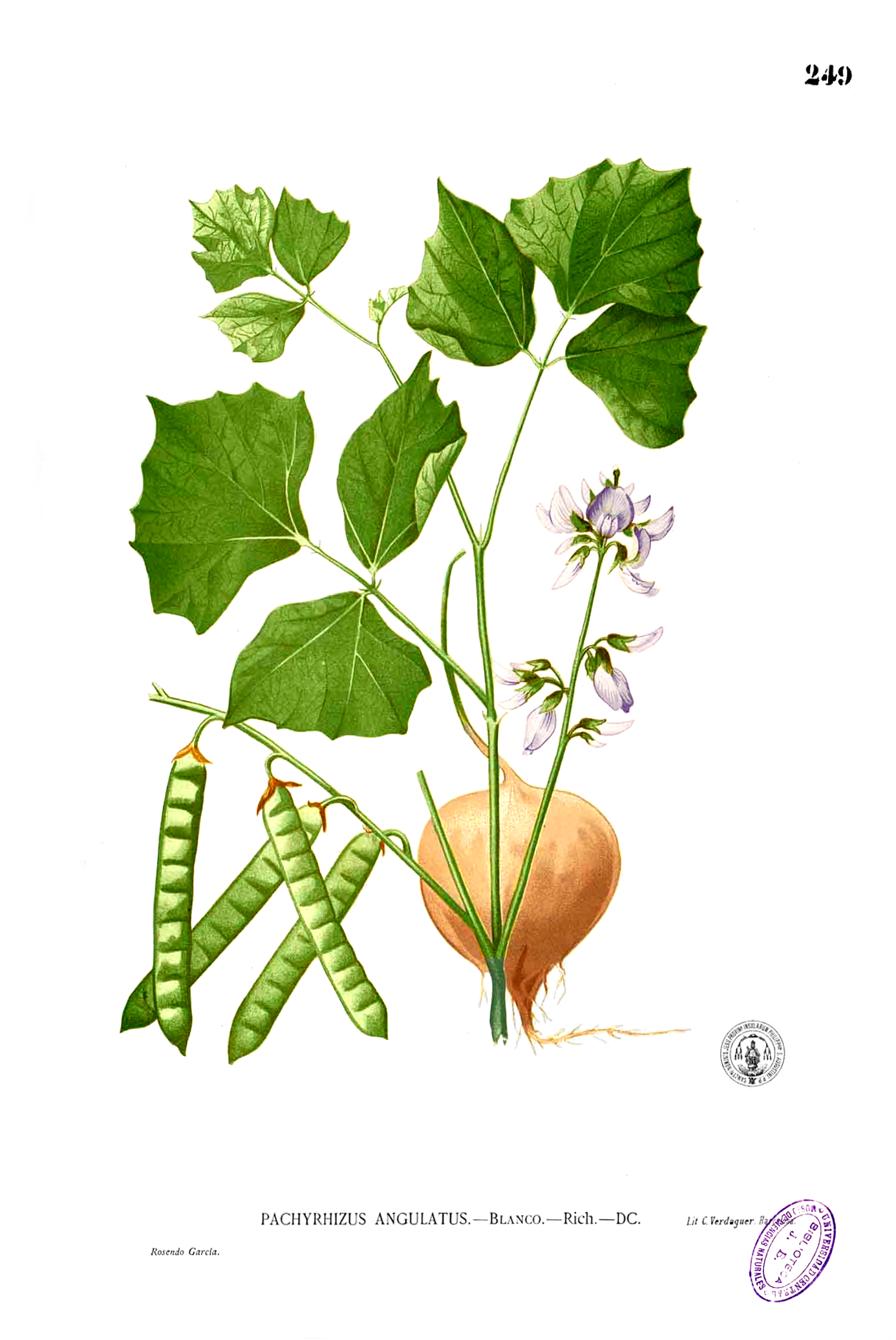 Plate from book